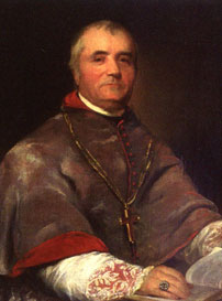 Portrait of Bishop John Dubois, 3rd Bishop of the Roman Catholic Diocese of New York (1764-1842)